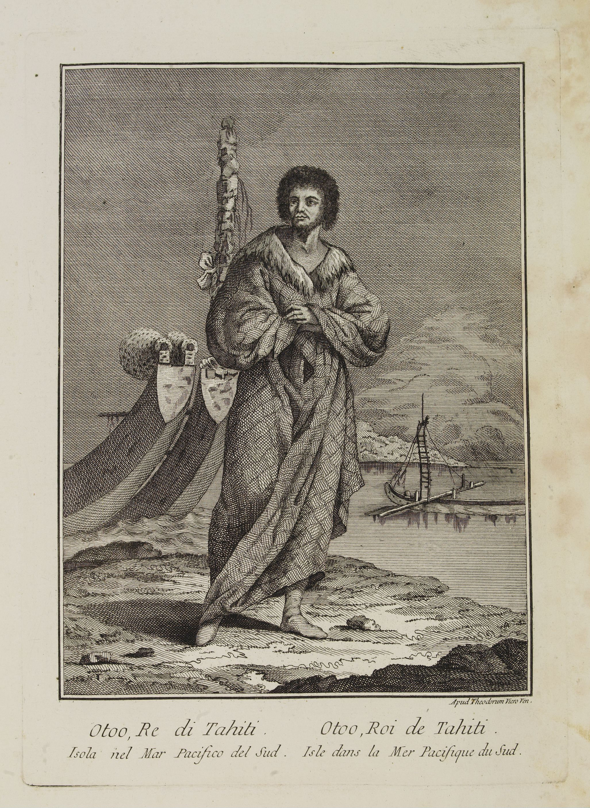 Otoo, King of Tahiti, later known as Pōmare I, (1742-1803), fully in old orthography: Tu-nui-ea-i-te-atua-i-Tarahoi Vairaatoa Taina Pomare I (also known as Tu or Tinah or Outu or simply as Pomare I), was the unifier and first king of Tahiti between 1788? and 1791. He is wrapped in a woven garment and parts of a decorated Tahitian canoe can be seen behind him. Derived from the engraving by William Hodges, Otoo, king of O-taheite (C-051-023), published London, 1777, from James Cook's second voyage to the Pacific in the early 1770s.